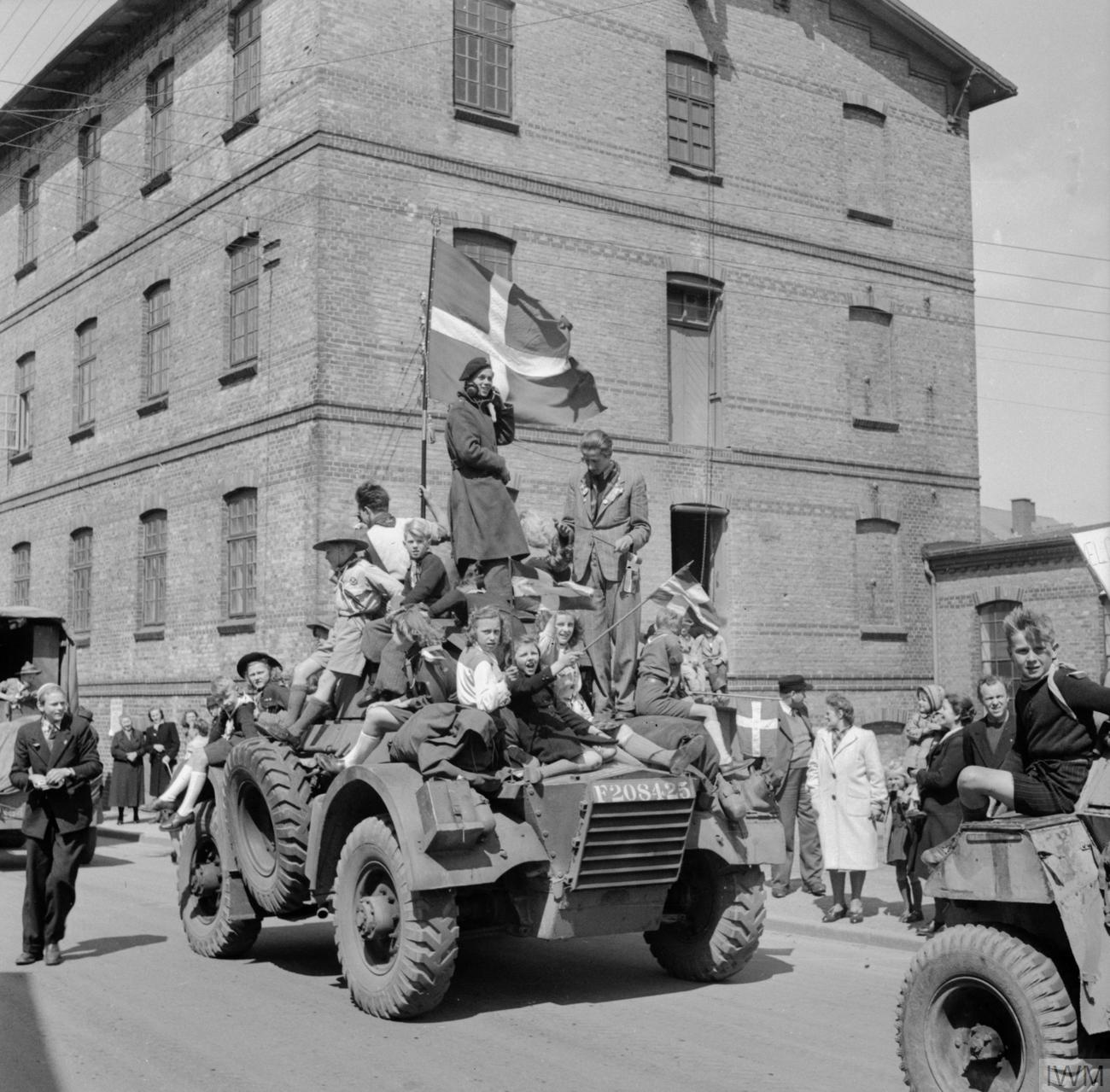 The British Army in North-west Europe 1944-45 Civilians ride on a Daimler armoured car of the 1st Royal Dragoons as it enters the town of Hadersleben in Denmark, 7 May 1945.